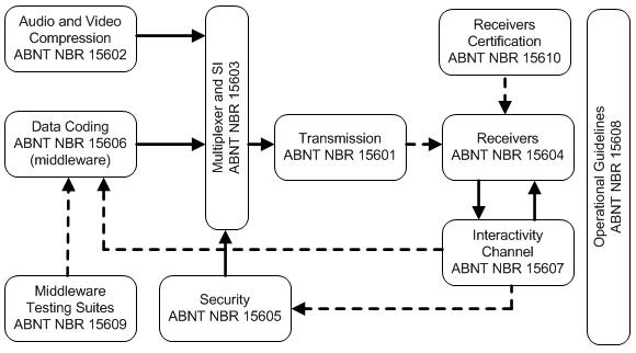 Overview of technical documents in SBTVD standardization structure